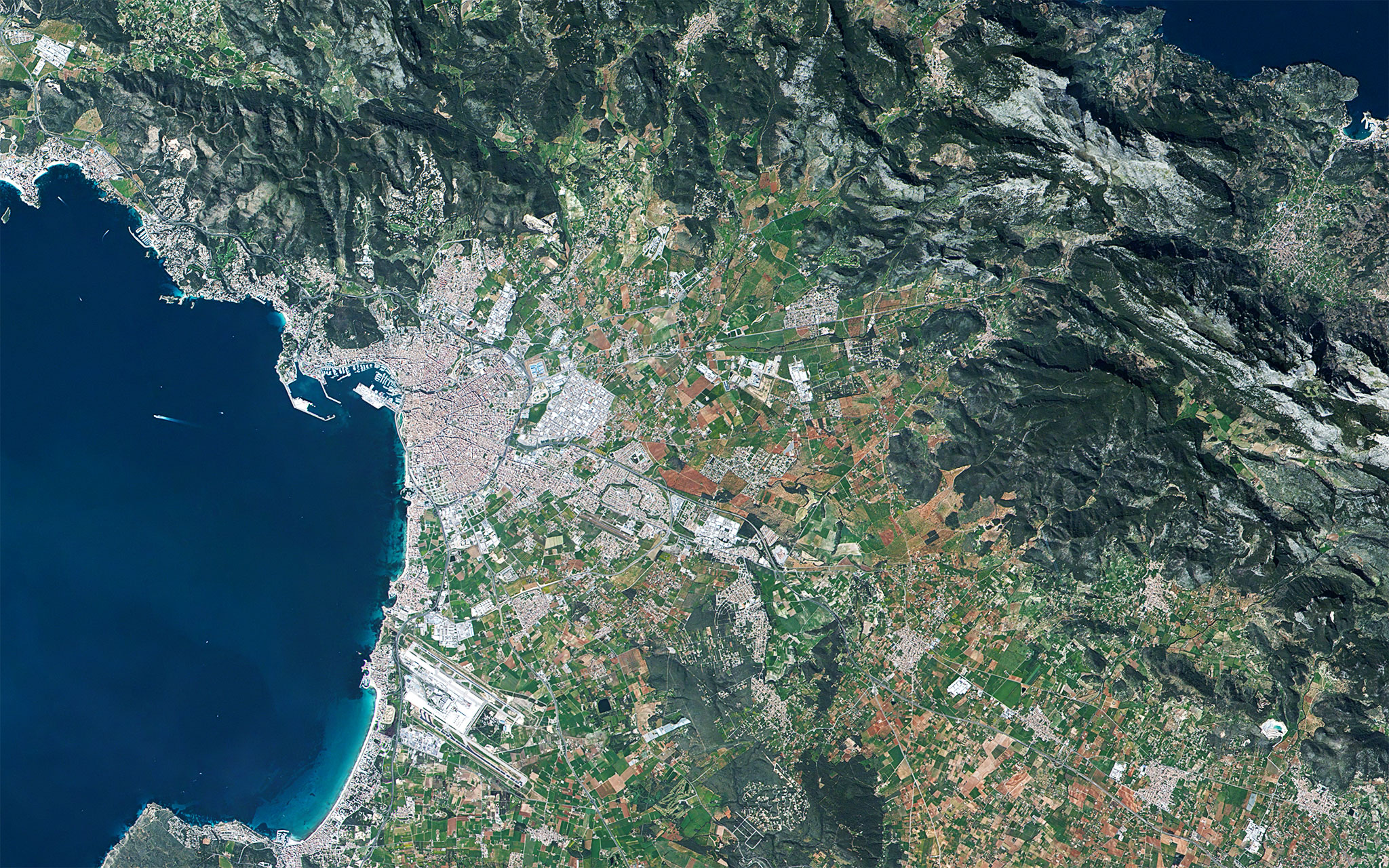 Palma, Spain, as viewed by Hodoyoshi-1 satellite.